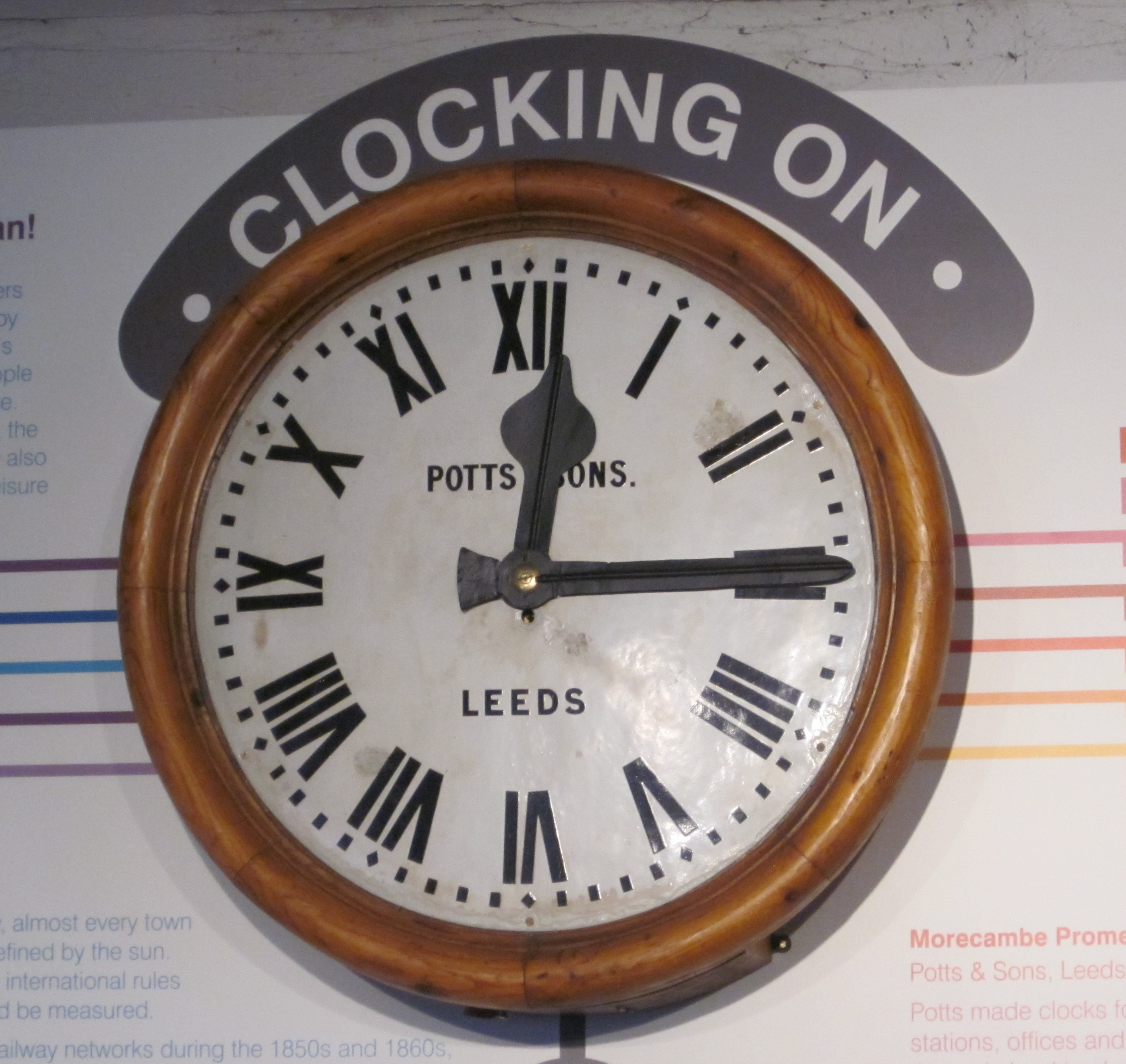 A clock by Potts of Leeds, on display in the Leeds Industrial Museum, Armley Mills.